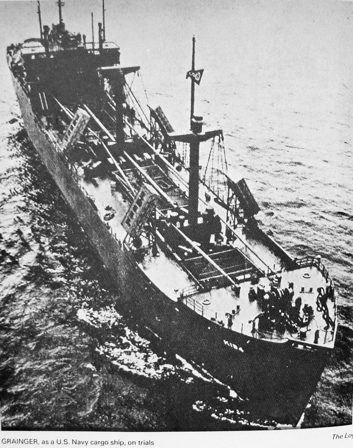 USS Grainger (AK-184) underway near her builders yard at Superior, WI. in the Great Lakes during sea trials in January-February 1945.